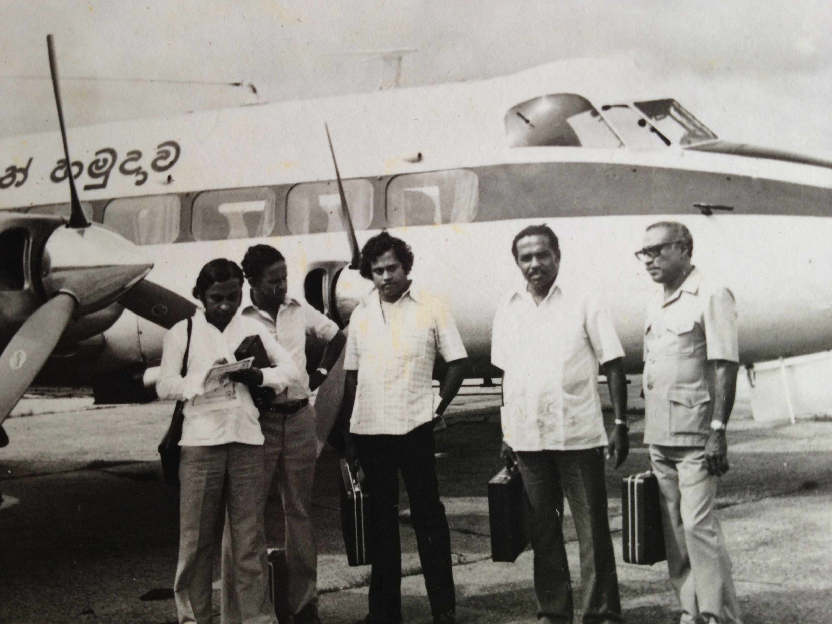 Circa; Unknown